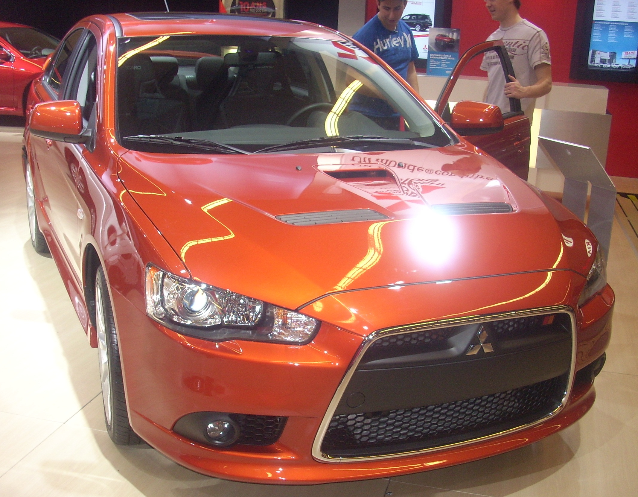 2010 Mitsubishi Lancer Ralliart photographed in Montreal, Quebec, Canada at the 2010 Montreal International Auto Show.